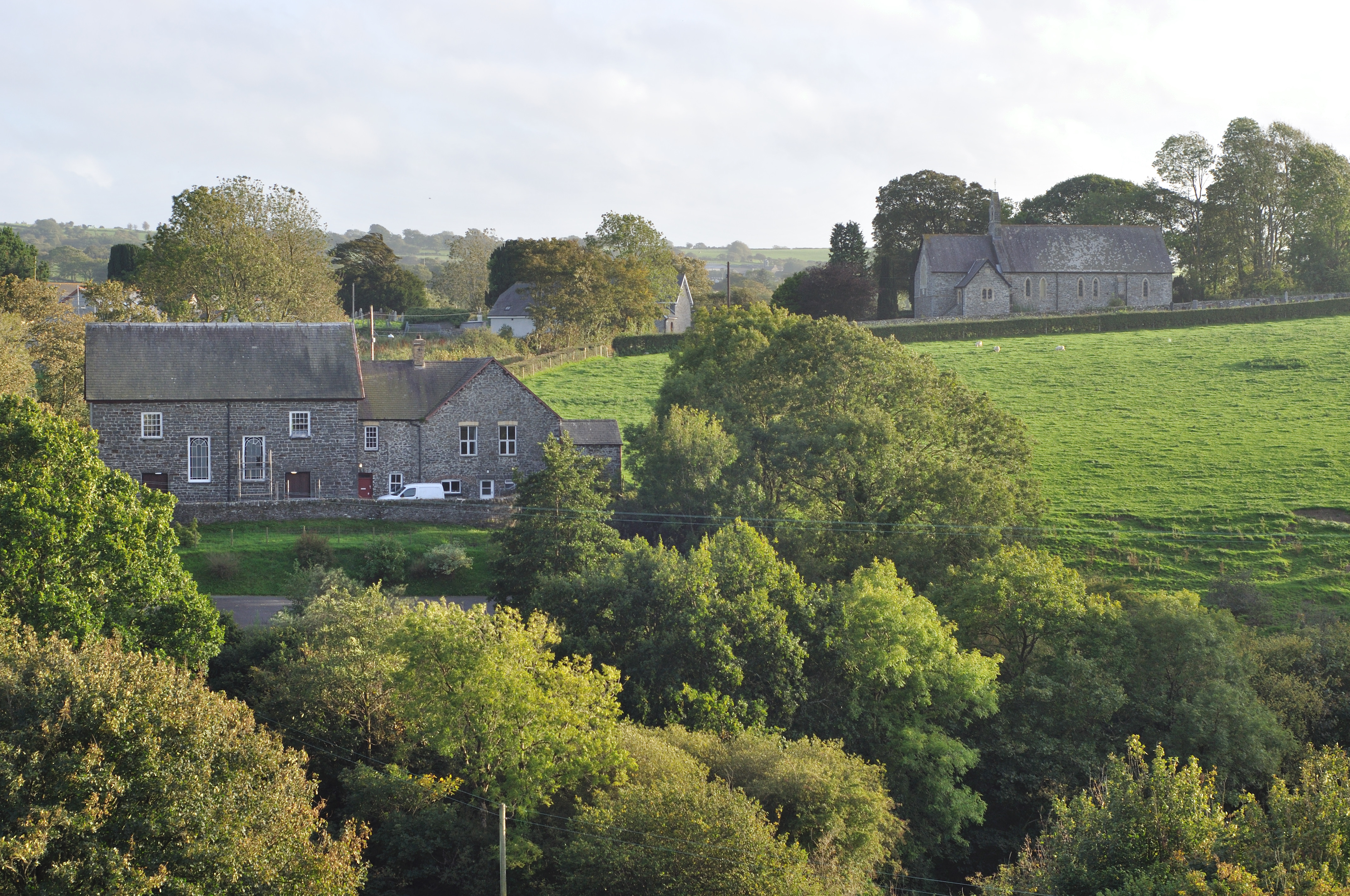 A view of The Church and Chapel in llangwyryfon